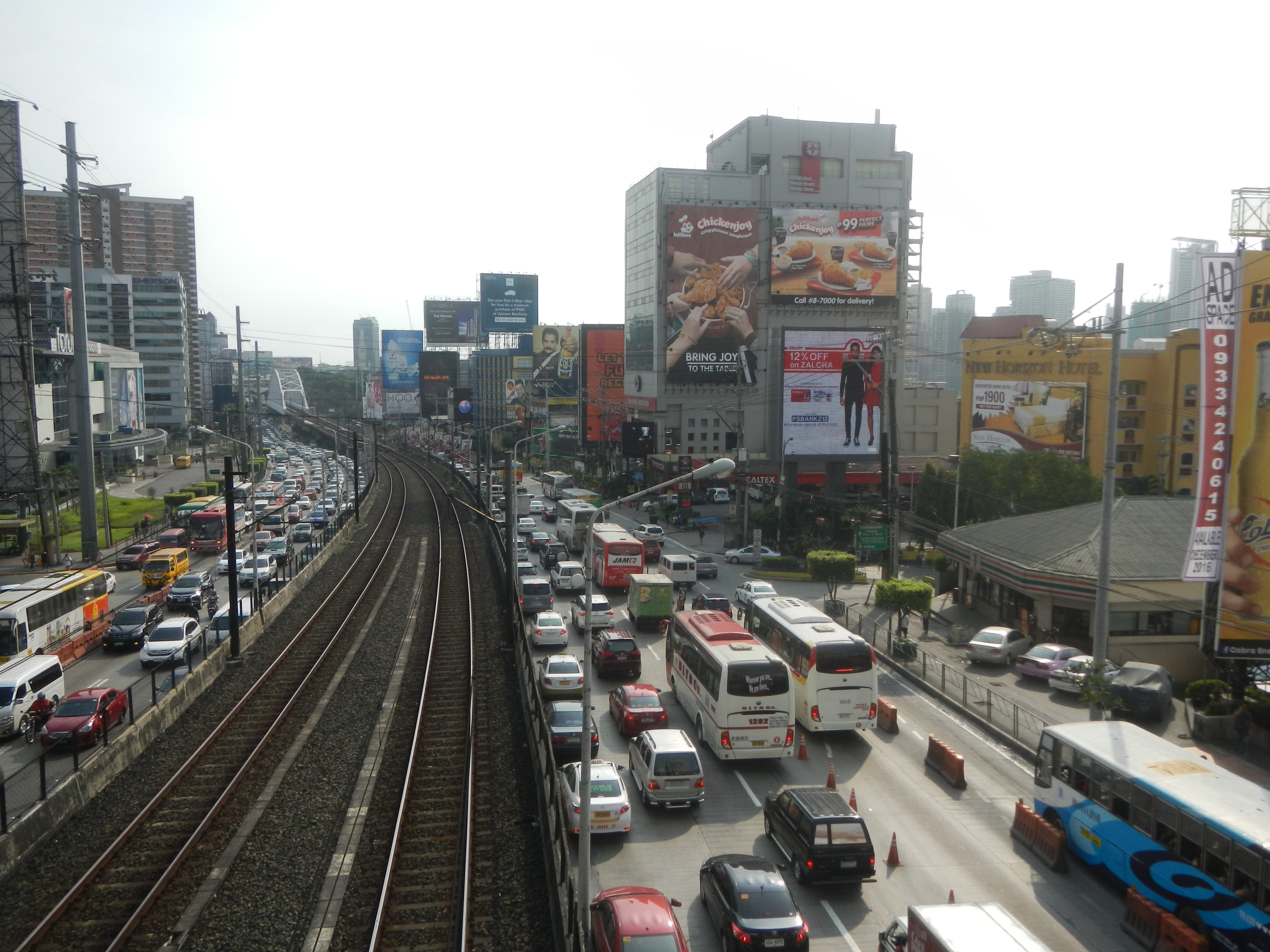 Light Mall - Light Residences SMDC (EDSA, Mandaluyong City) Light Residences 14°34'25"N 121°2'56"E SM Development Corporation 14°34'28"N 121°2'58"E Pioneer Woodlands 14°34'21"N 121°2'55"E Empire East Forum Robinsons Robinsons Place Pioneer 14°34'15"N 121°2'51"E Robinsons_Malls Robinsons Cybergate Mandaluyong City Boni MRT Station along EDSA (road) Epifanio de los Santos Avenue Highway 54, Boni Avenue and Pioneer Street Pioneer Bridge 15 metric tons load limit 6 meters length K0012+235+112 corner Sheridan Street 14°34'26"N 121°3'12"E in the List of barangays of Metro Manila, Barangay Barangaka Ilaya, beside Buayang Bato 14°34'10"N 121°2'57"E beside Highway Hills 14°34'47"N 121°3'3"E Mandaluyong City (Note: Judge Florentino Floro, the owner, to repeat, Donor Florentino Floro of all these photos hereby donate gratuitously, freely and unconditionally all these photos to and for Wikimedia Commons, exclusively, for public use of the public domain, and again without any condition whatsoever).